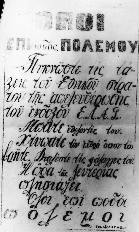 Call for become part of ELAS This media file is produced by Wikipedian in Residence in Category:Wikipedian in Residence at DARM in 2016.